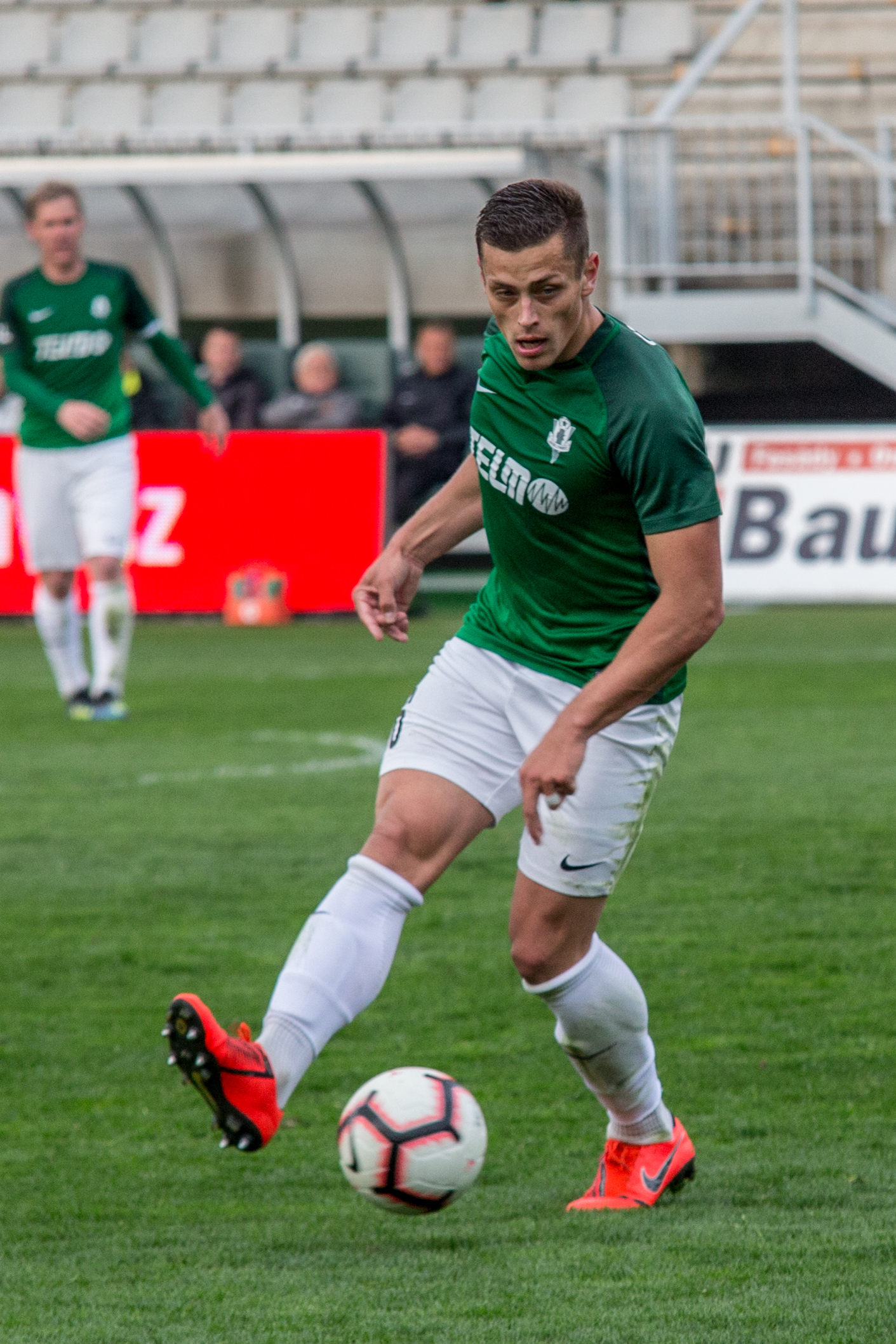 Tomáš Holeš at the Czech First League association football match with FK Jablonec v FC Baník Ostrava Personality rights warningAlthough this work is freely licensed or in the public domain, the person(s) shown may have rights that legally restrict certain re-uses unless those depicted consent to such uses. In these cases, a model release or other evidence of consent could protect you from infringement claims.